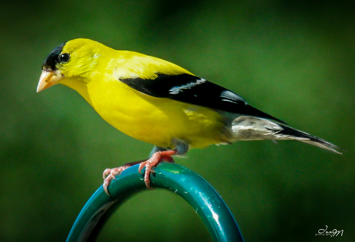 Male Gold Finch